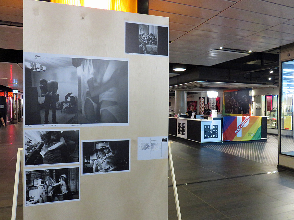 Photos exhibited during the Pride Photo Award exhibition in the Lil'Amsterdam passage, July-August 2019.